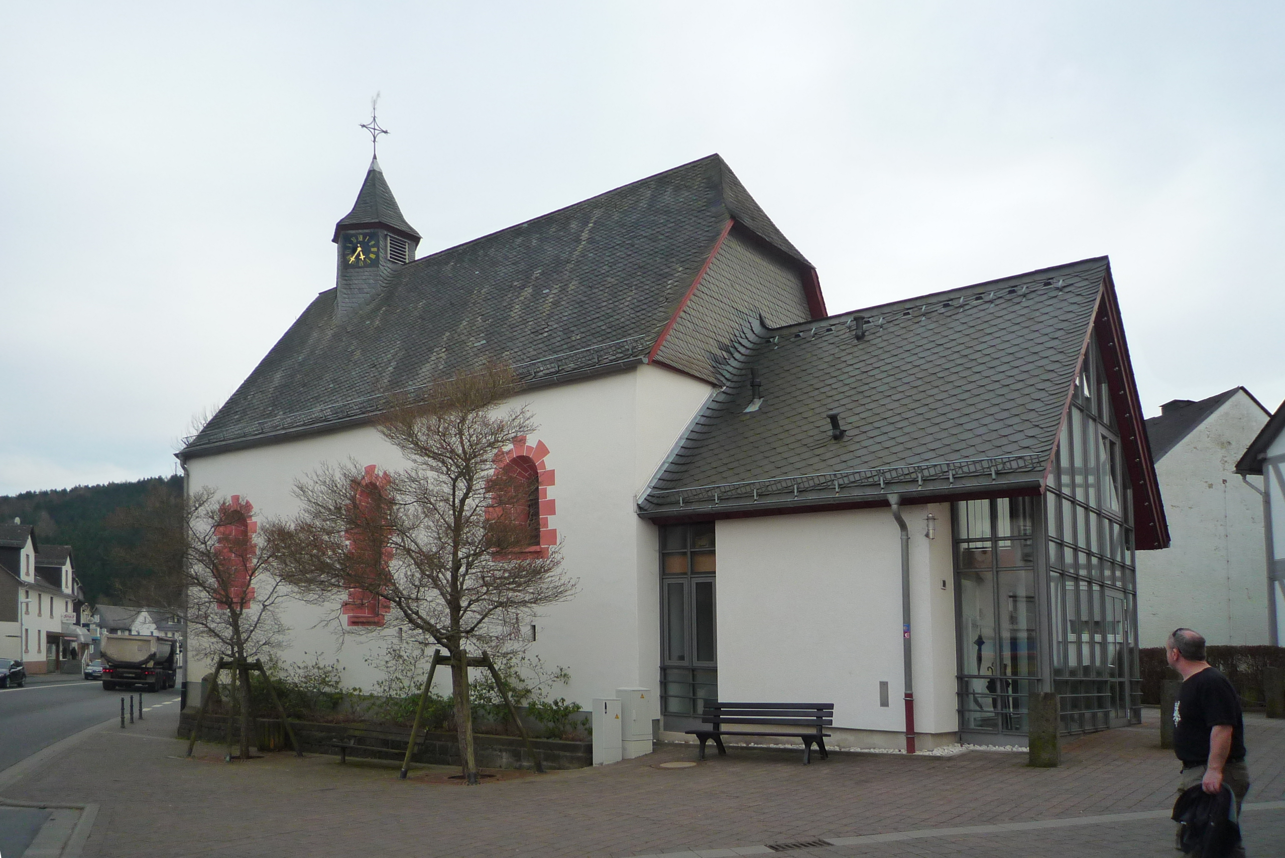 Evangelische Johanneskapelle in Ewersbach